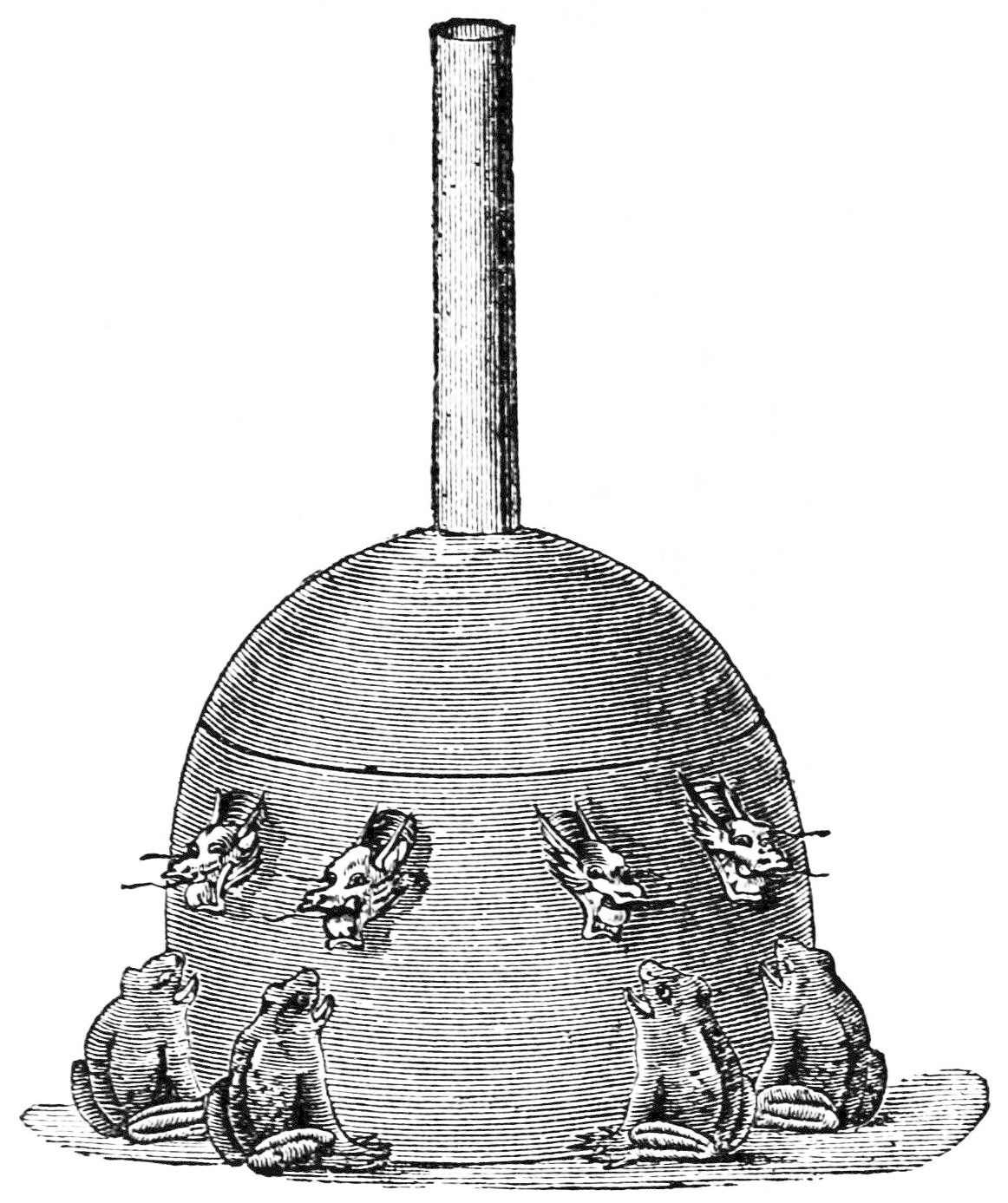 Ancient Chinese Choko seismoscope from 136 A.D.